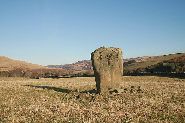 The Glebe Stone This 1.4m high standing stone, near the Selkirk to Moffat road, is on the site of a former large stone cairn that covered a quantity of decomposed bones.